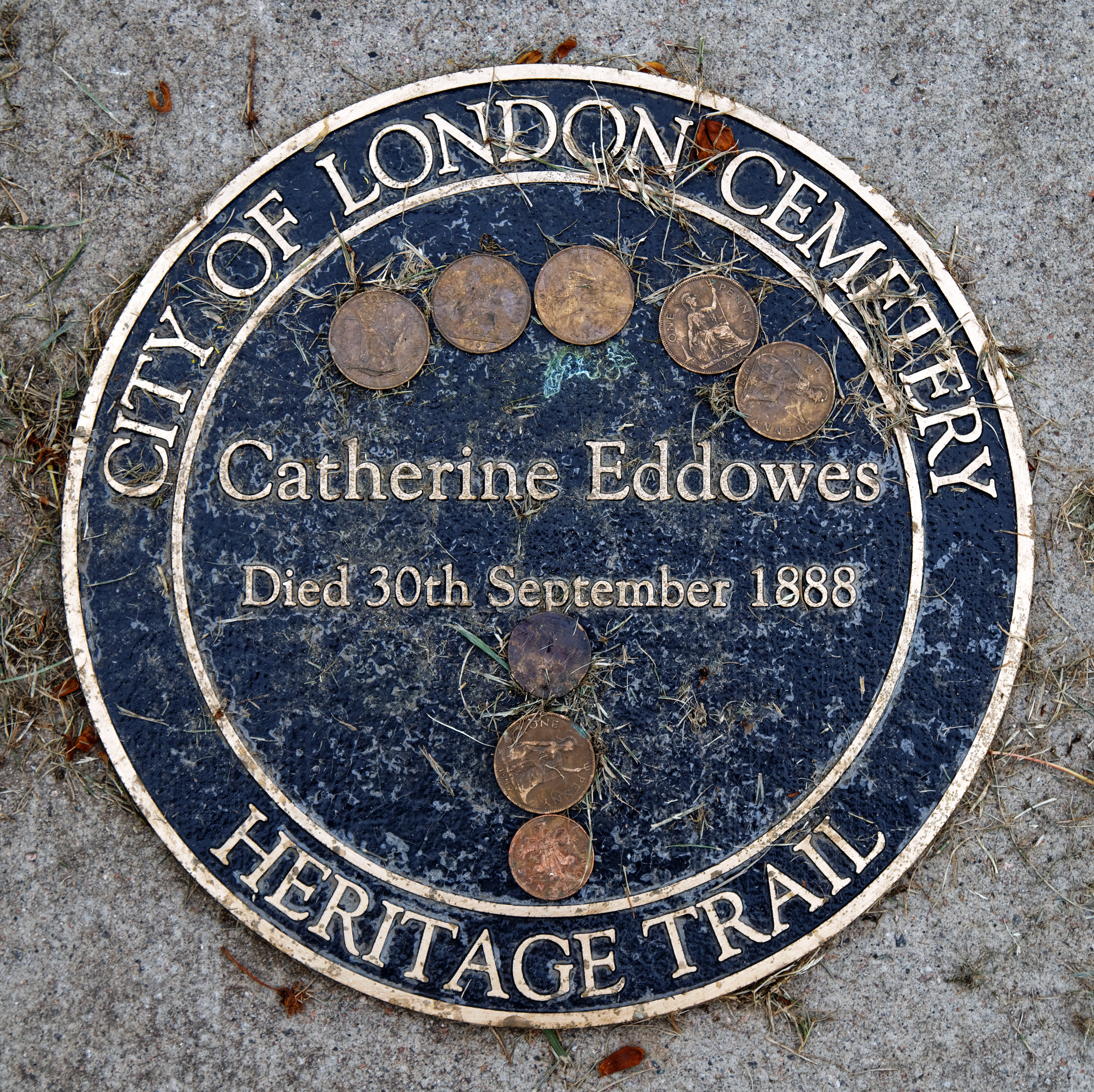 Catherine Eddowes grave marker on Gardens way in the Memorial Gardens to the north-east of the Traditional Crematorium in the City of London Cemetery, Aldersbrook Road, Newham, England.Mobile device view: Wikimedia (June 2020) makes it difficult to immediately view photo groups related to this image. To see its most relevant allied photos, click on City of London Cemetery and Crematorium, and this uploader's Photos. You can add a click-through 'categories' button to the very bottom of photo-pages you view by going to settings... three-bar icon top left.Desktop view: Wikimedia (June 2020) makes it difficult to immediately view the helpful category links where you can find images related to this one in a variety of ways; for these go to the very bottom of the page.This image is one of a series of date and/or subject allied consecutive photographs kept in progression or location by file name number and/or time marking.Camera: Canon EOS 6D Mark II with Canon EF 24-105mm F4L IS USM lens.Software: File lens-corrected, optimized, perhaps cropped, with DxO OpticsPro Elite, and likely further optimized with Adobe Photoshop CS2.